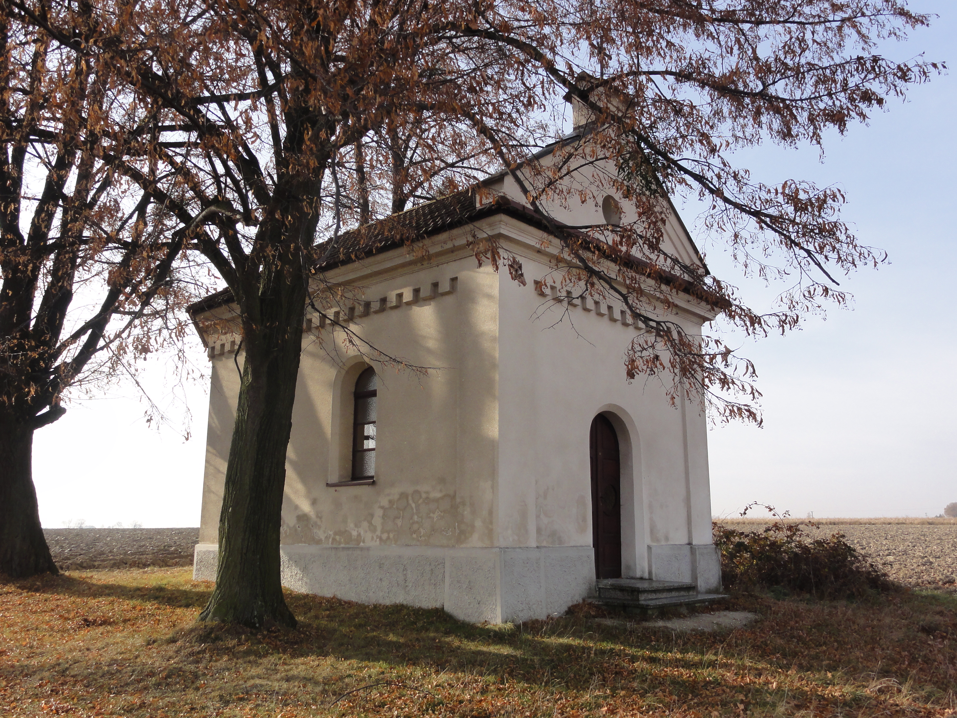 Chapel of Saint Joseph in Pruchna